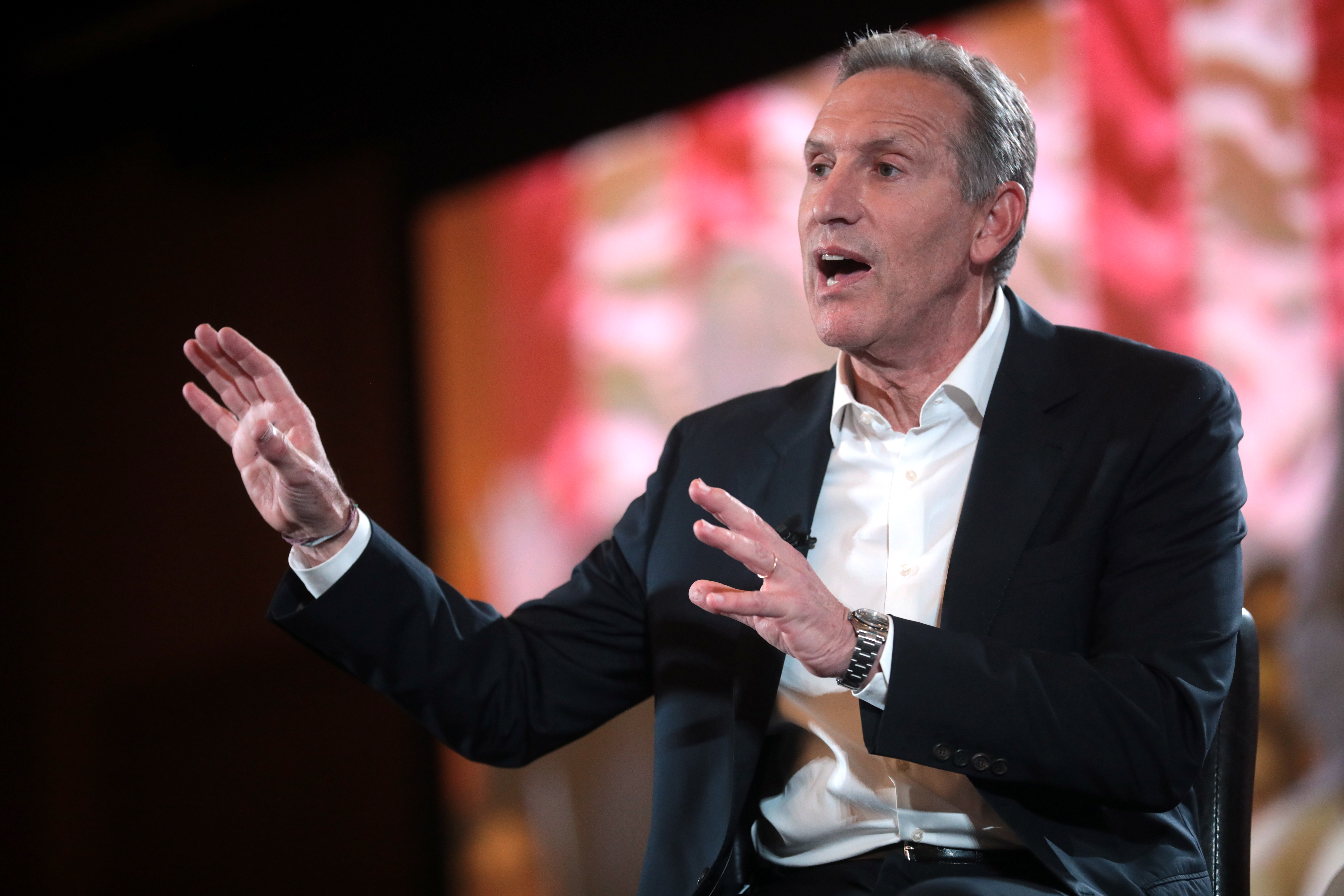 Howard Schultz, the former CEO of Starbucks, speaking with attendees at an event titled "From the Ground Up" at the Student Pavilion at Arizona State University in Tempe, Arizona.